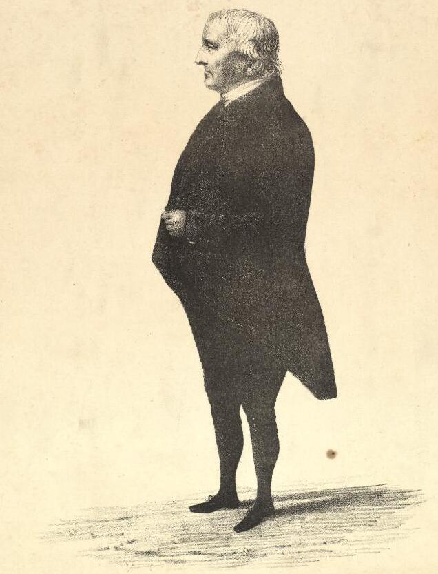 A portrait from the Welsh Portrait Collection at the National Library of Wales. Depicted person: John Bryan – Welsh Wesleyan Methodist minister